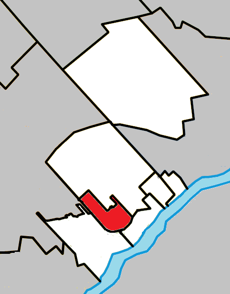 Location of Sainte-Thérèse, Quebec within Thérèse-De Blainville Regional County Municipality.